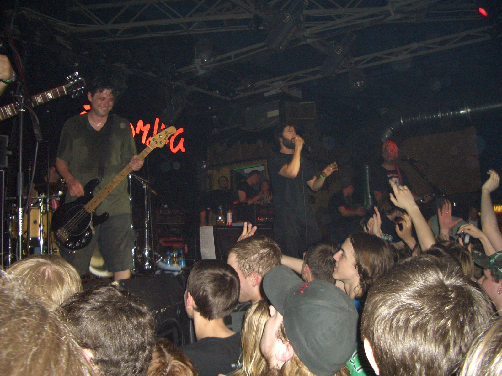 The punk rock band Lagwagon performing in club Tochka, Moscow.